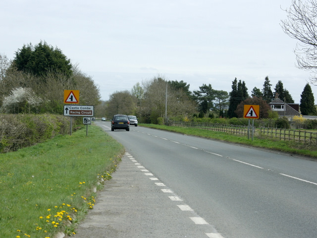 A420 heading east for Chippenham Look out for speed cameras, though I don't think they have them at the racing circuit.